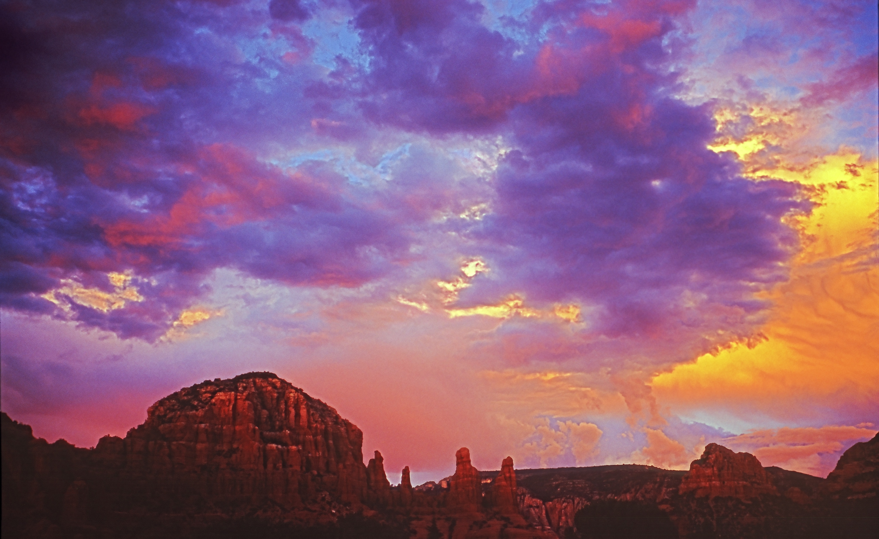 Sunset over the Red Rocks area of Arizona, near Sedona, Arizona.